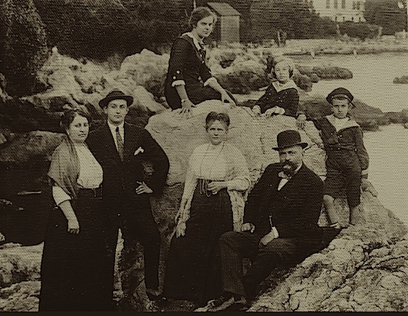 Photo taken in 1908 at Abazzia in Istria, Austro-Hungaria (today's Croatia) by D.M. Simic (1871-1929). On the photo are the heirs of Krsta Tomanovich, owner of the "Albania" plot at the Terazije Square in Belgrade, Kingdom of Serbia (today's Serbia)